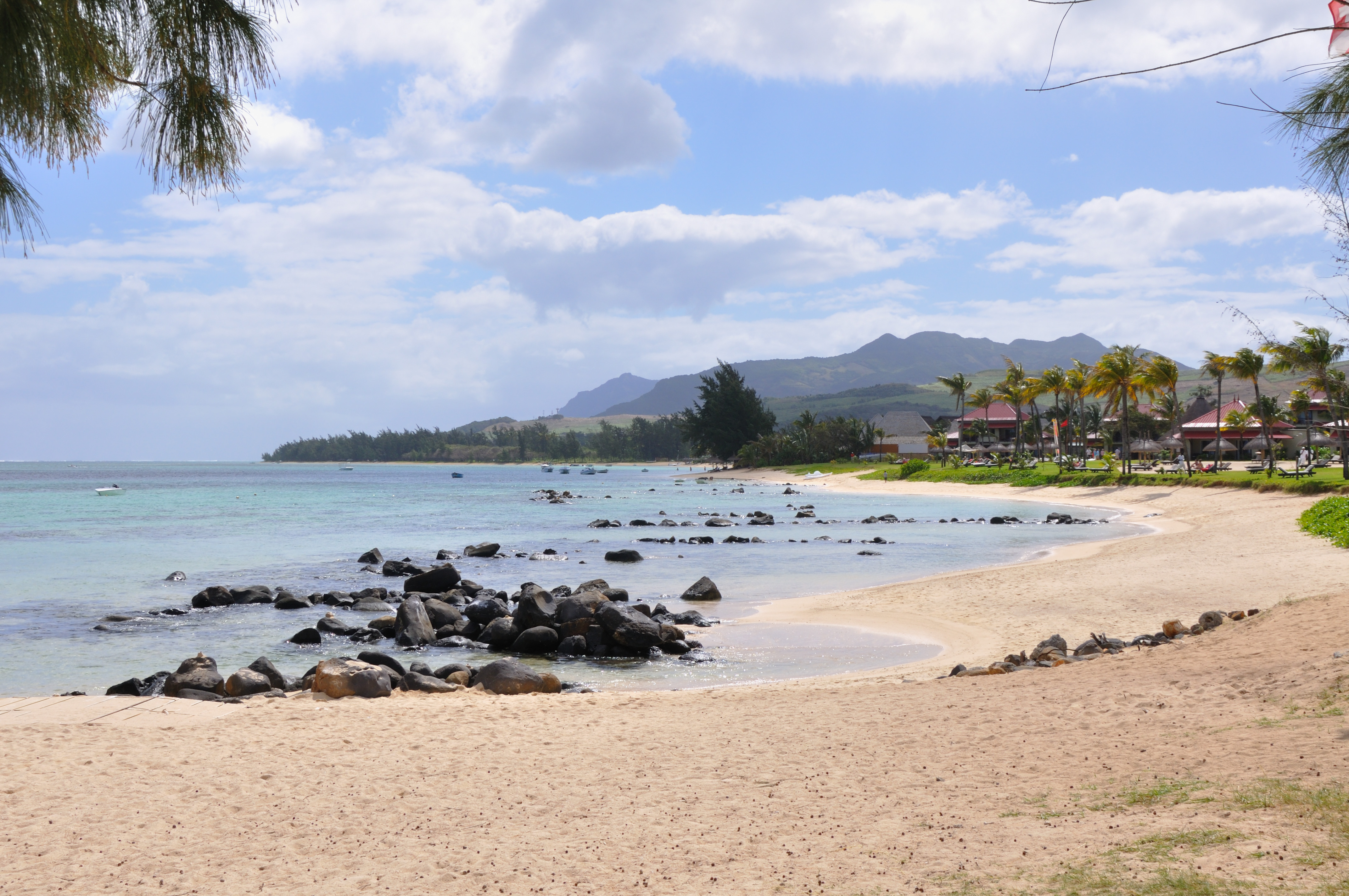 Mauritius, Beach of Hotel Mövenpick, Bel Ombre